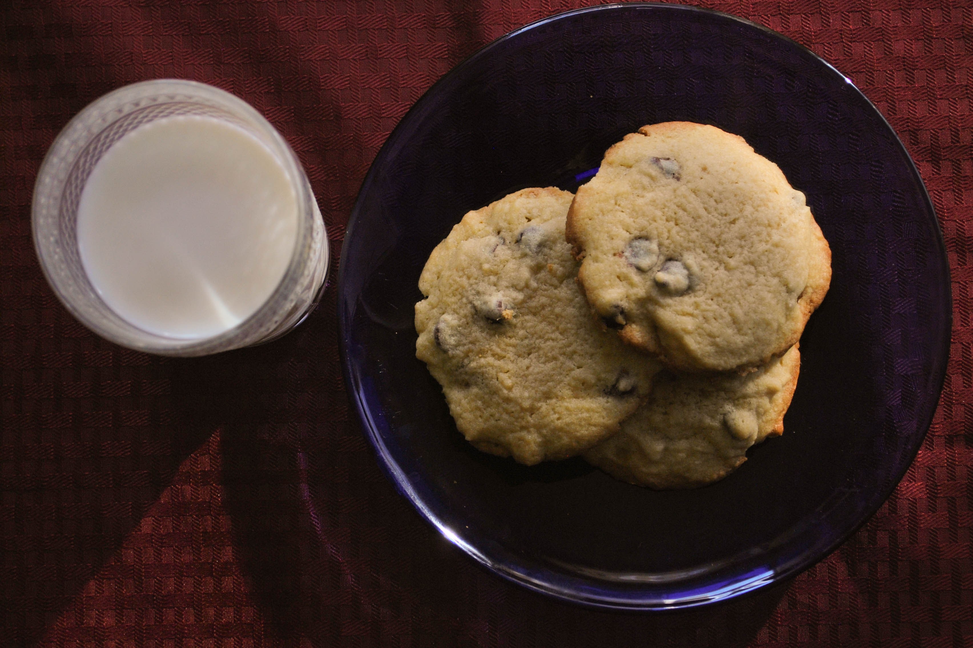 Chocolate chip cookies are often paired with a glass of milk.